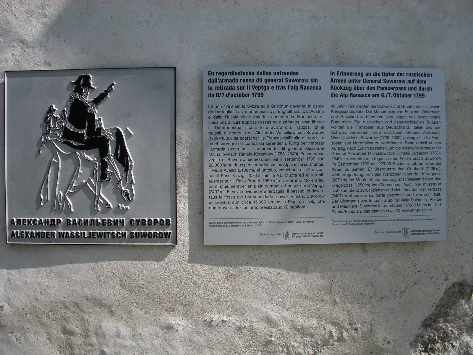 Panixer pass GR, Switzerland